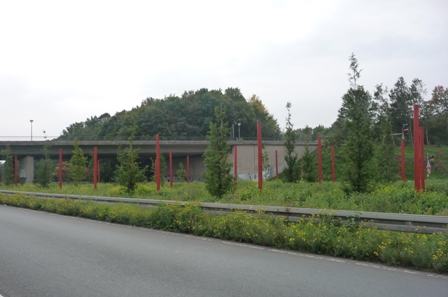 The "Park Motorway A42" at the intersection Castrop-Rauxel.